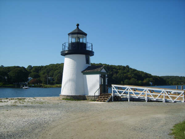 Mystic Seaport Light is a lighthouse in Connecticut, United States, at south end of Mystic Seaport, two miles upriver from Noank, Connecticut.